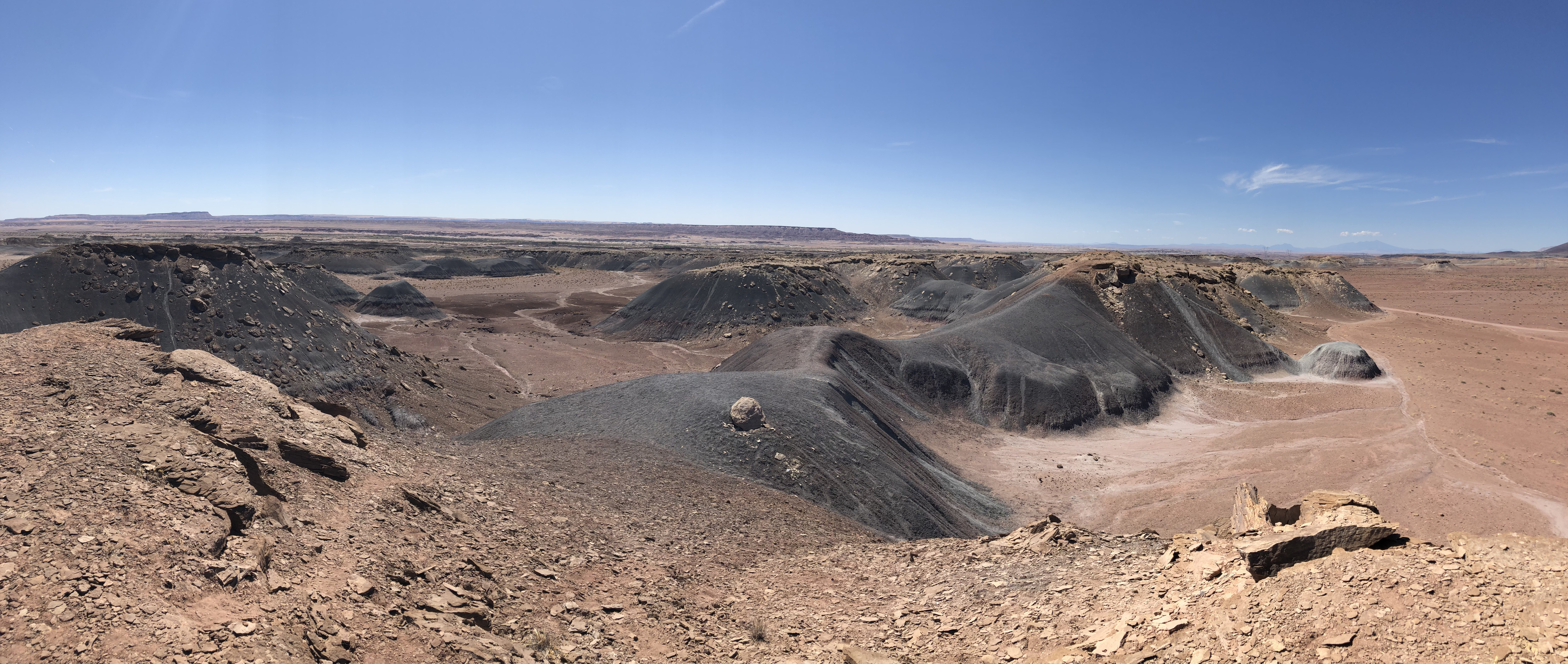 Photo of the Painted Desert landscape on the Navajo Nation located near Cameron, Arizona.